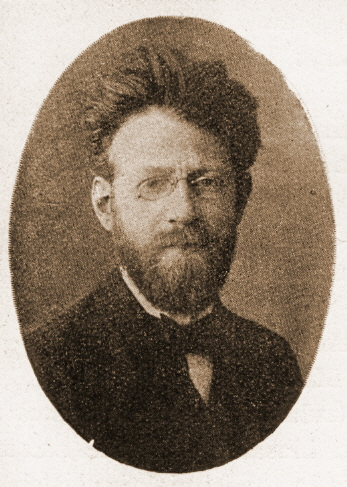 Portrait of František Gellner